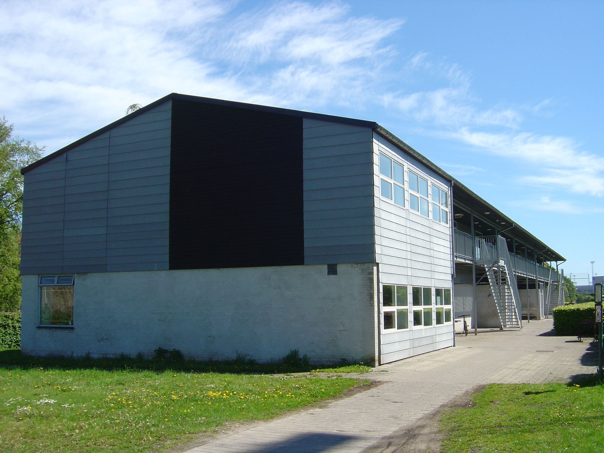 Amager Fodbold Forening - the club house for an Danish association football club on John Tranums Allé, Amager, Copenhagen. Seen from the northwest side, in Kastrup.